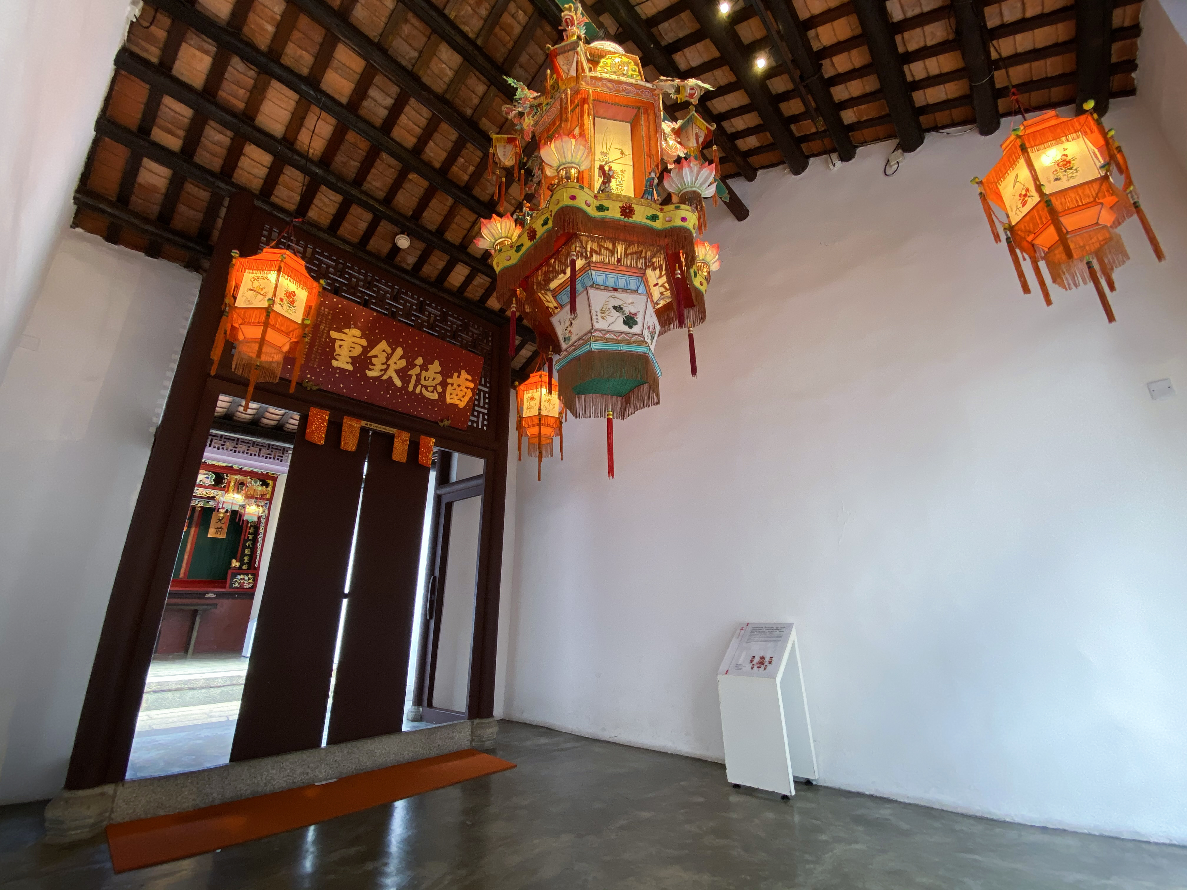 Sam Tung Uk Assembly Hall